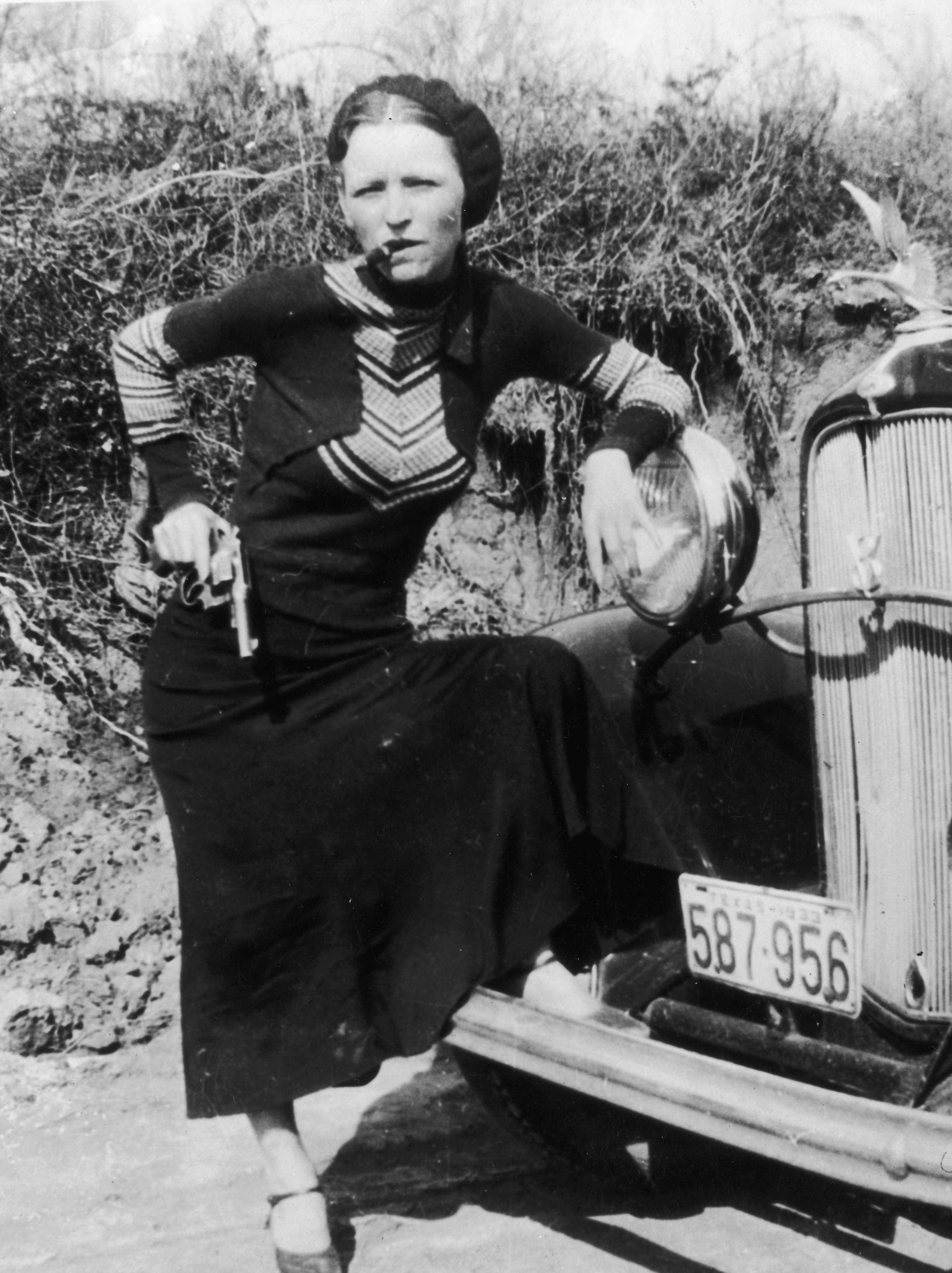 A snapshot of criminal Bonnie Parker smoking a cigar, seized by police 4-13-1933.